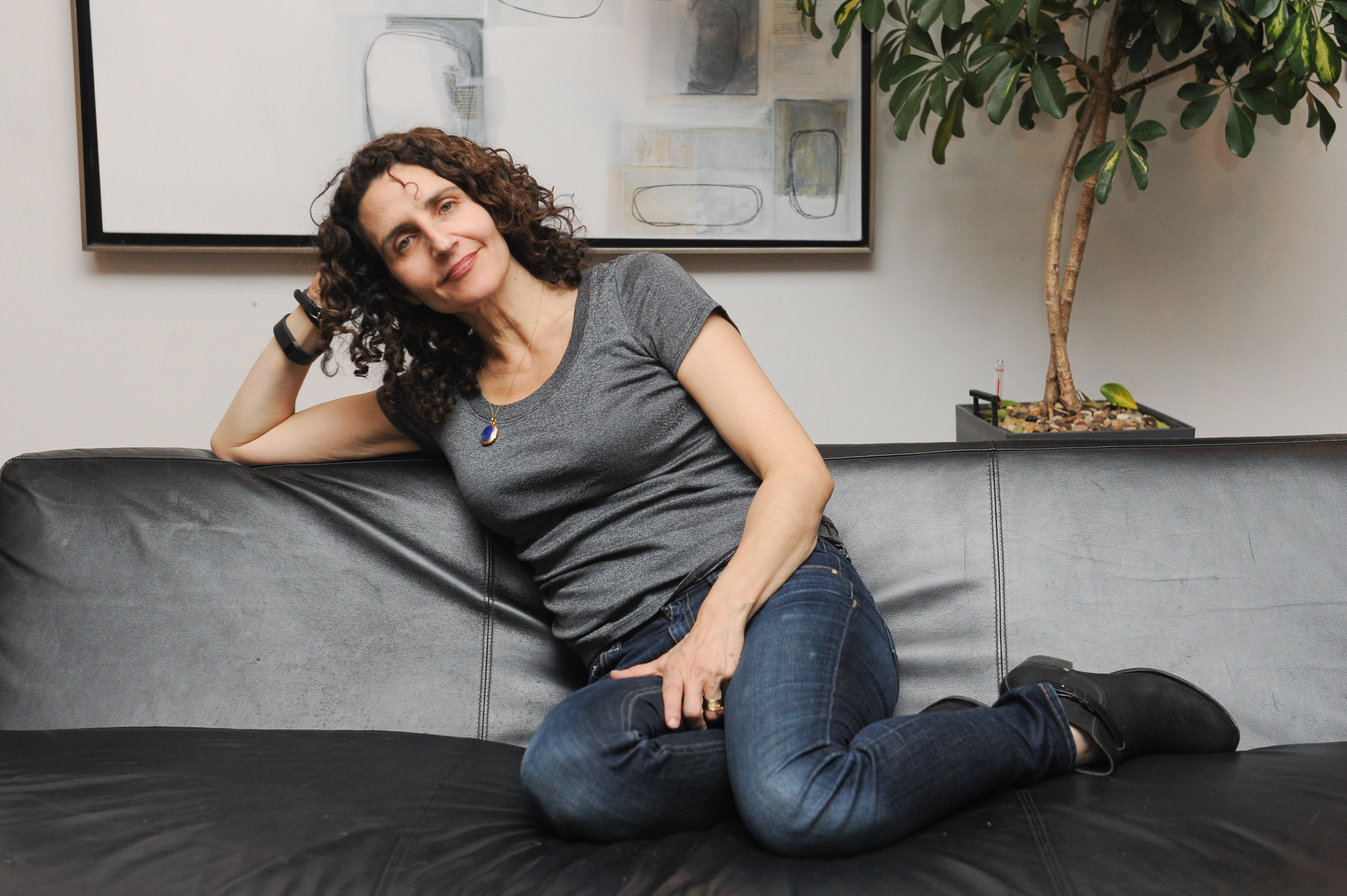 Tamara Jenkins in 2013